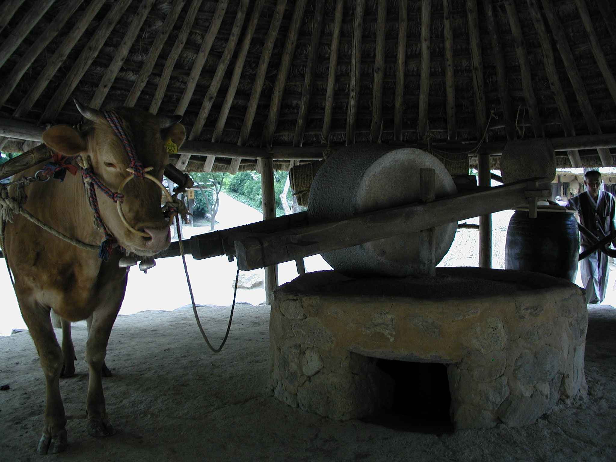 Korean Folk Village (Minsokchon) in Yongin, Gyeonggi-do, Korea